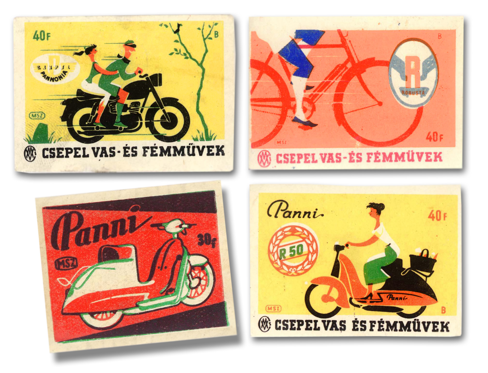 Csepel motorcycles and bicycles - advertising match label, in the 1960's years. Hungary